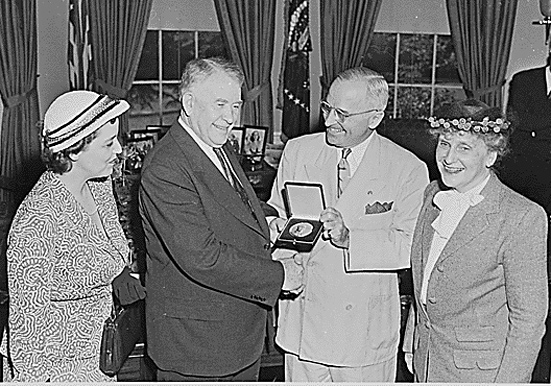 From left: Jane Hadley Barkley, her husband Alben W. Barkley, Vice President of the United States, President Harry S. Truman, Nellie Tayloe Ross